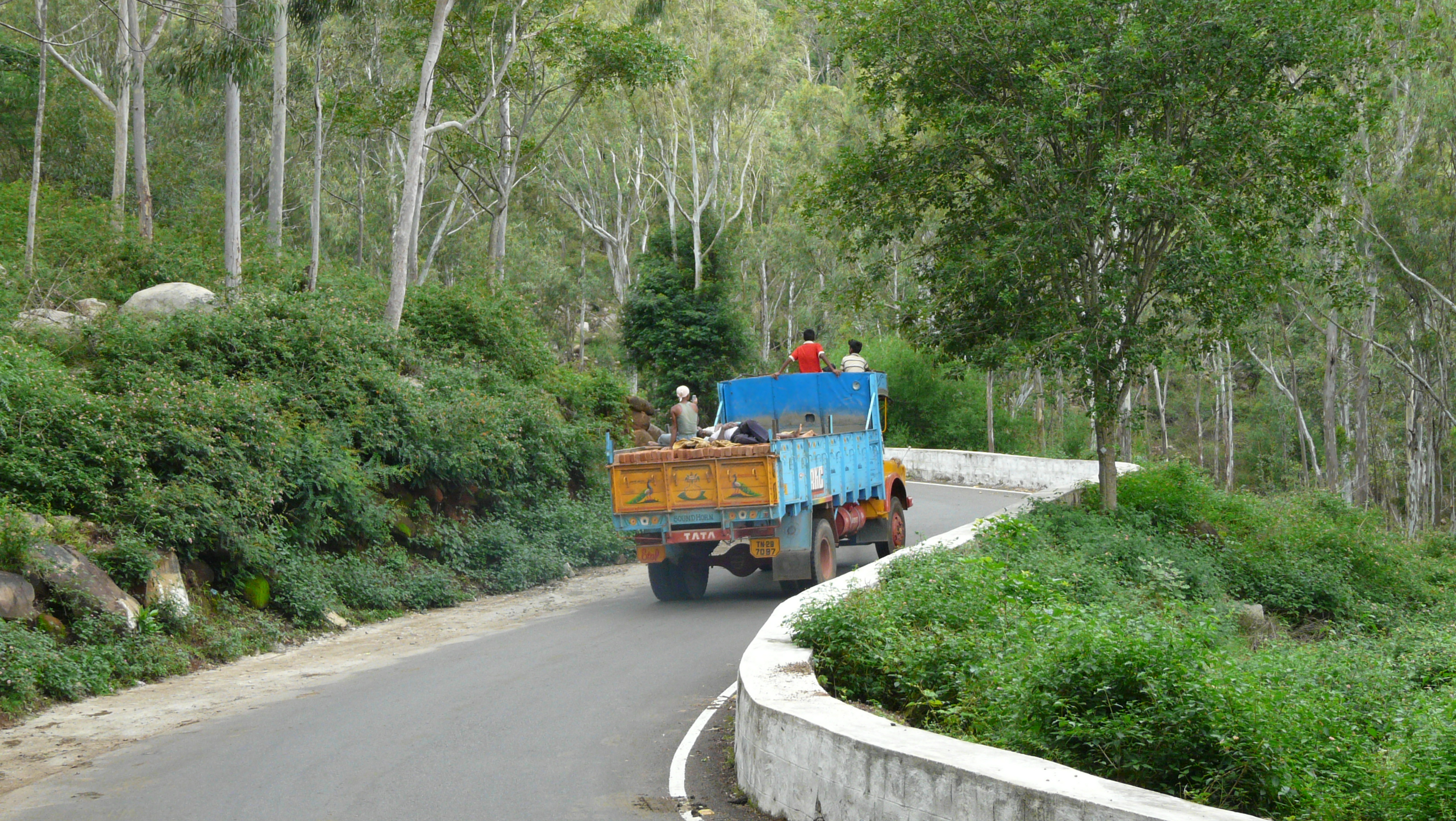 Road to leading to Yelagiri